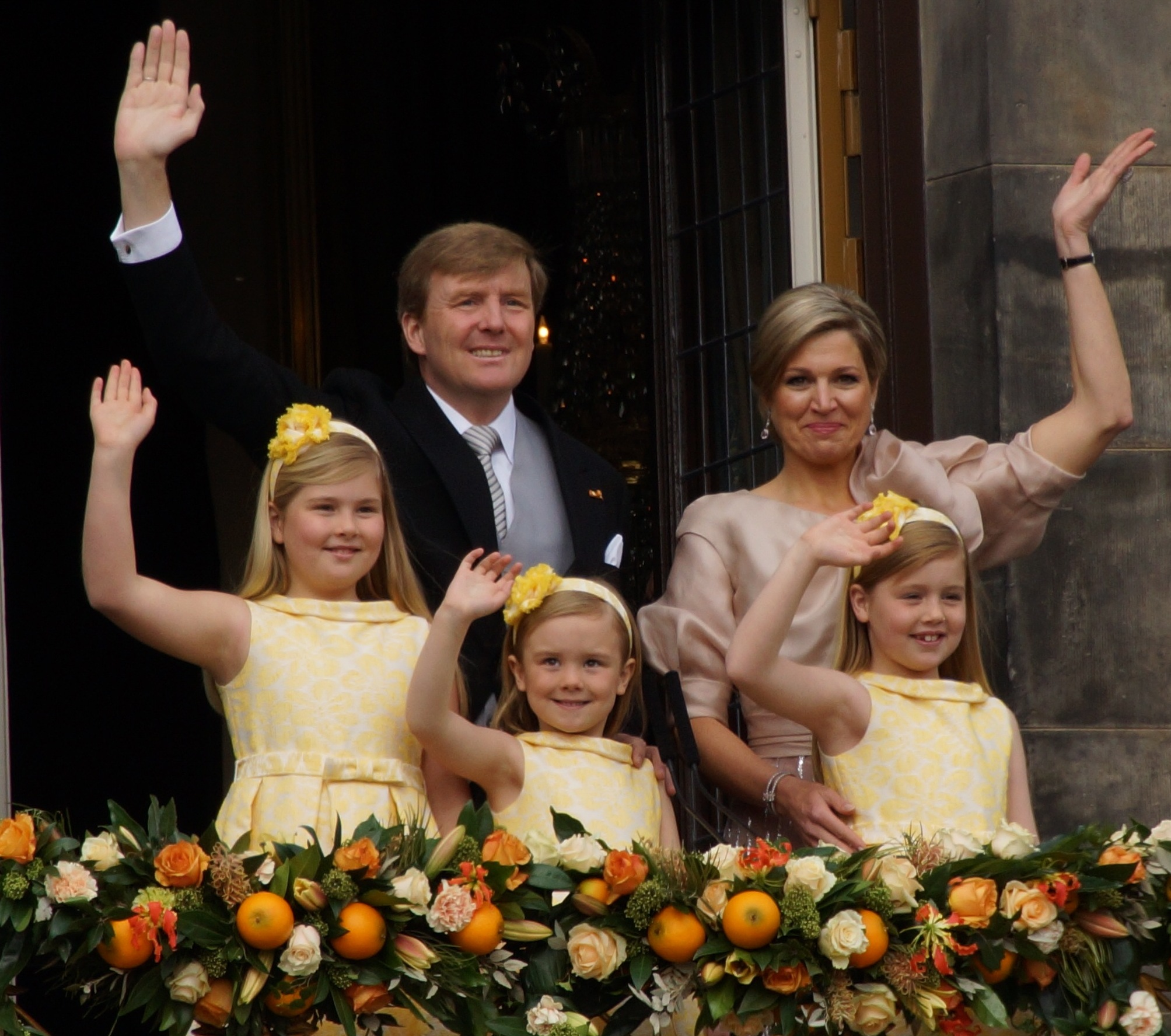 King Willem-Alexander, Queen Maxima and Princesses Catharina-Amalia, Alexia and Ariane during the balcony scene after the abdication of Beatrix.